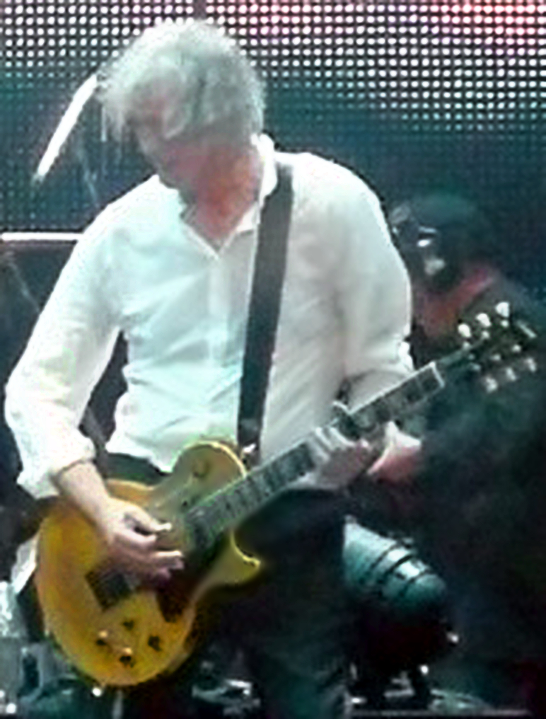 A reunited Led Zeppelin in December 2007 at The O2 in London for the Ahmet Ertegün tribute show. From left to right: John Paul Jones, Robert Plant, and Jimmy Page. On drums is Jason Bonham, the son of the deceased John Bonham.